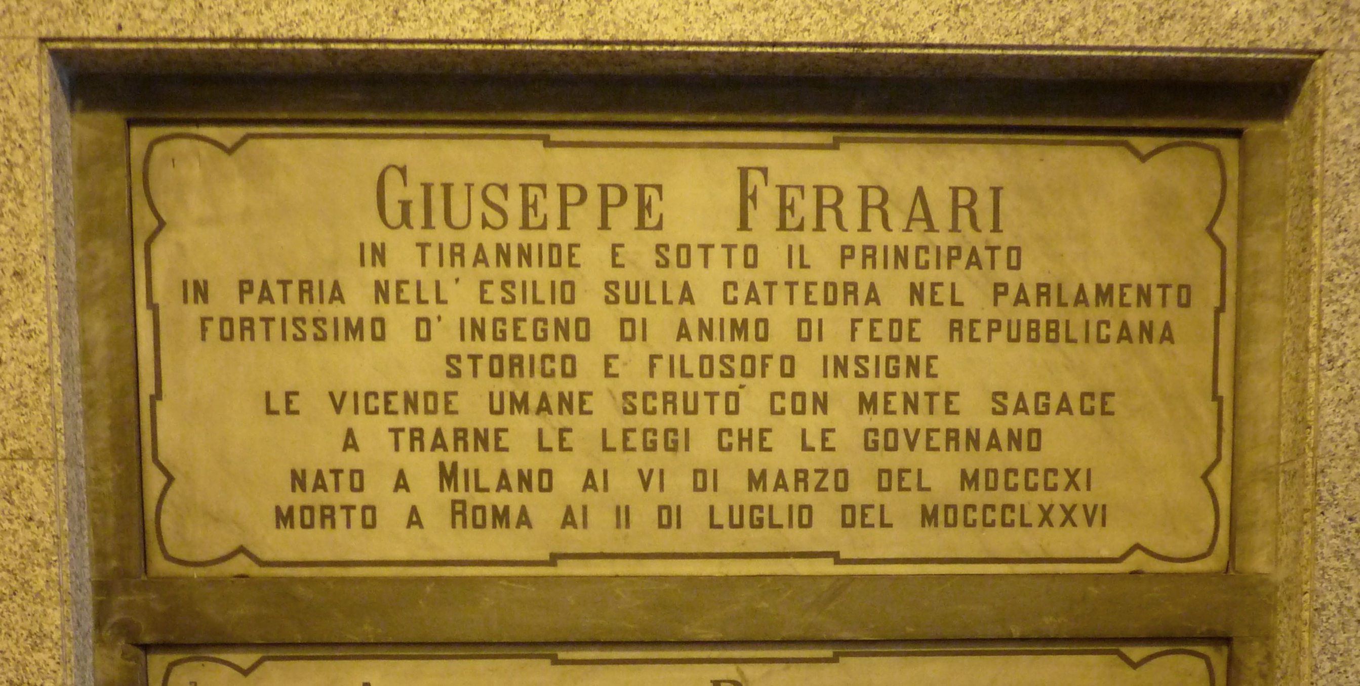 The grave of Italian philosopher Giuseppe Ferrari at the Monumental Cemetery of Milan, Italy.